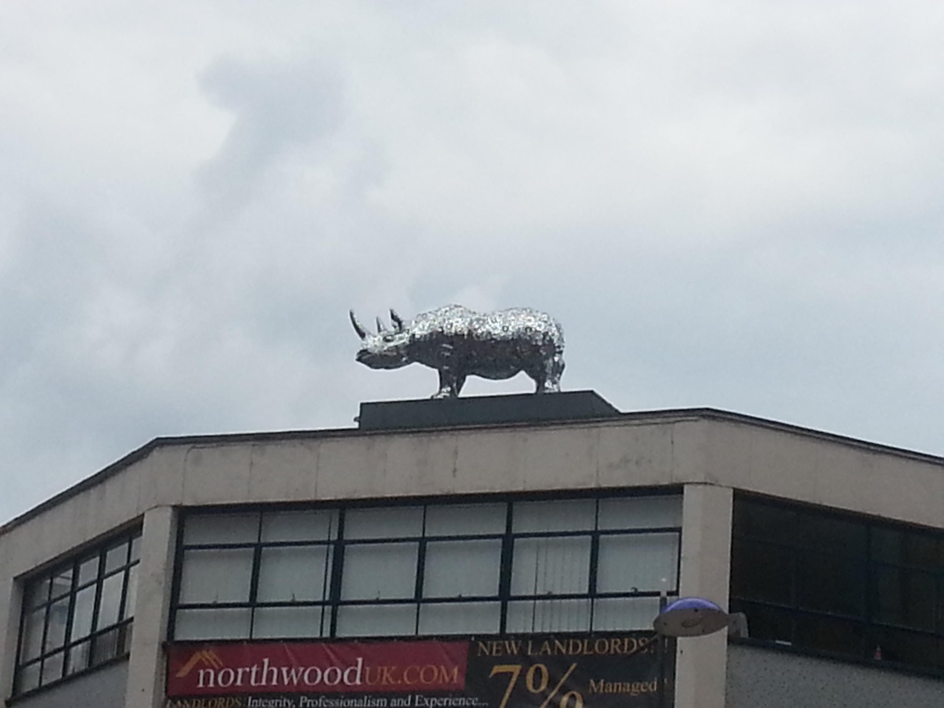 its a photo of the Rhinoceros artwork installed on the roof of the Urban Kitchen in Birmingham